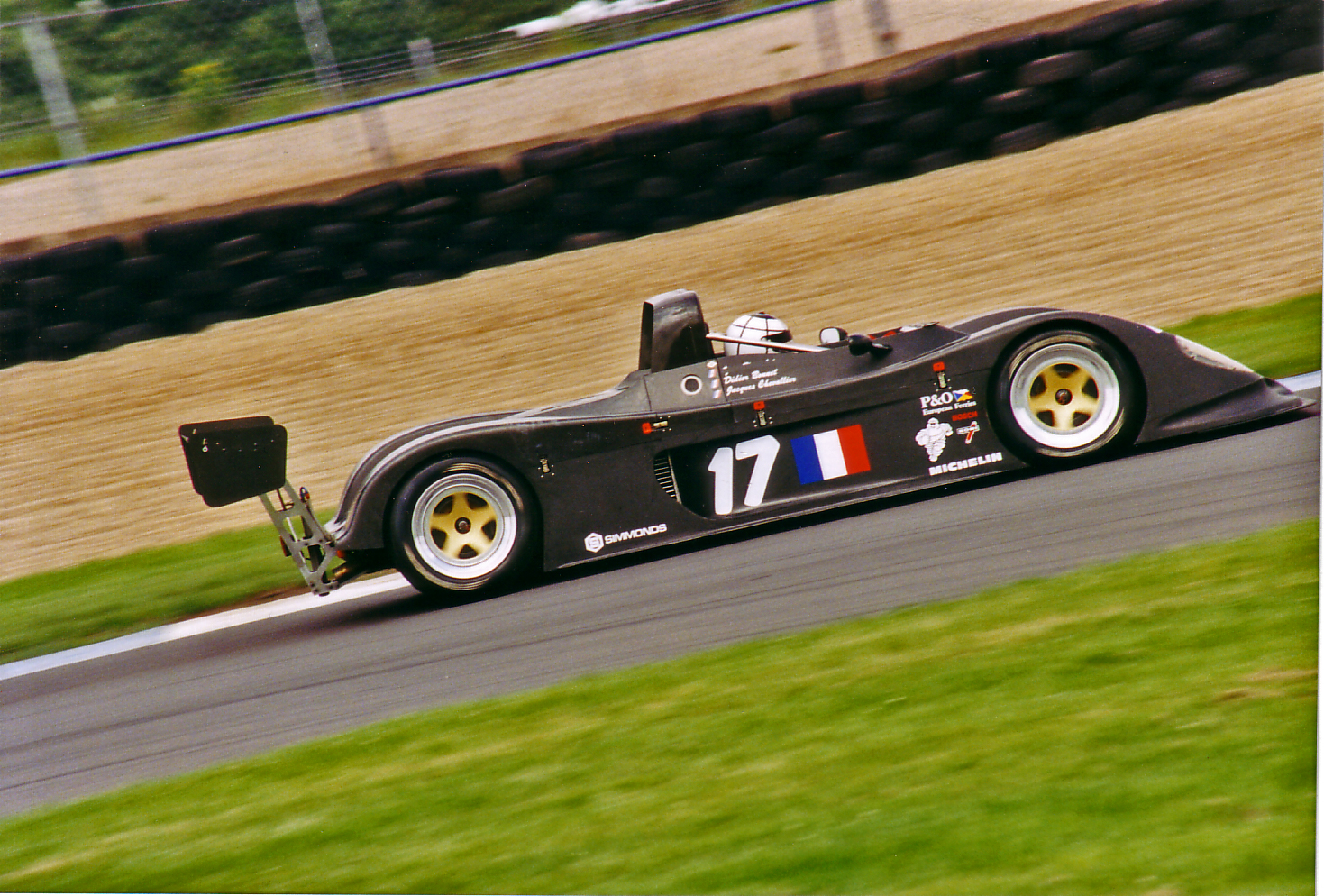 Dobora LMP 296 Didier Bonnet Donington 5th July 1997